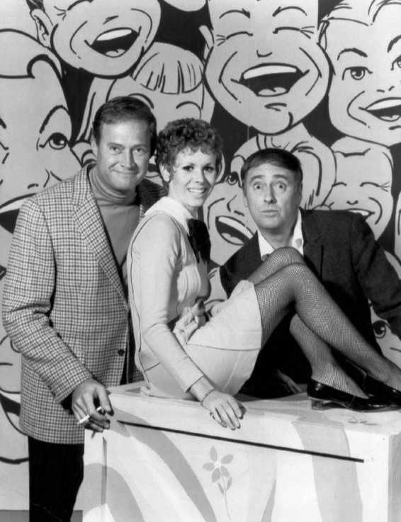 Publicity photo of Dan Rowan, Dick Martin, and Judy Carne as she joins the Rowan & Martin's Laugh-In cast.